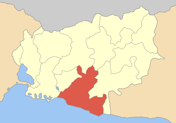 Locator map of Maronia municipality (Δήμος Μαρώνειας) in Rodopi prefecture (Νομός Ροδόπης) in Greece.